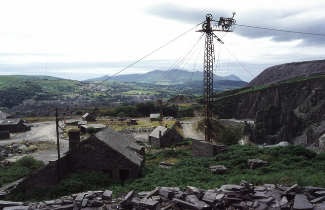 Pen-yr-Orsedd Quarry I believe I've got position and direction correct but it's not easy seven years later. This is a fascinating site with the remains of a Blondin system including steam winches converted to electric drive and a steam compressor also converted to electric drive.